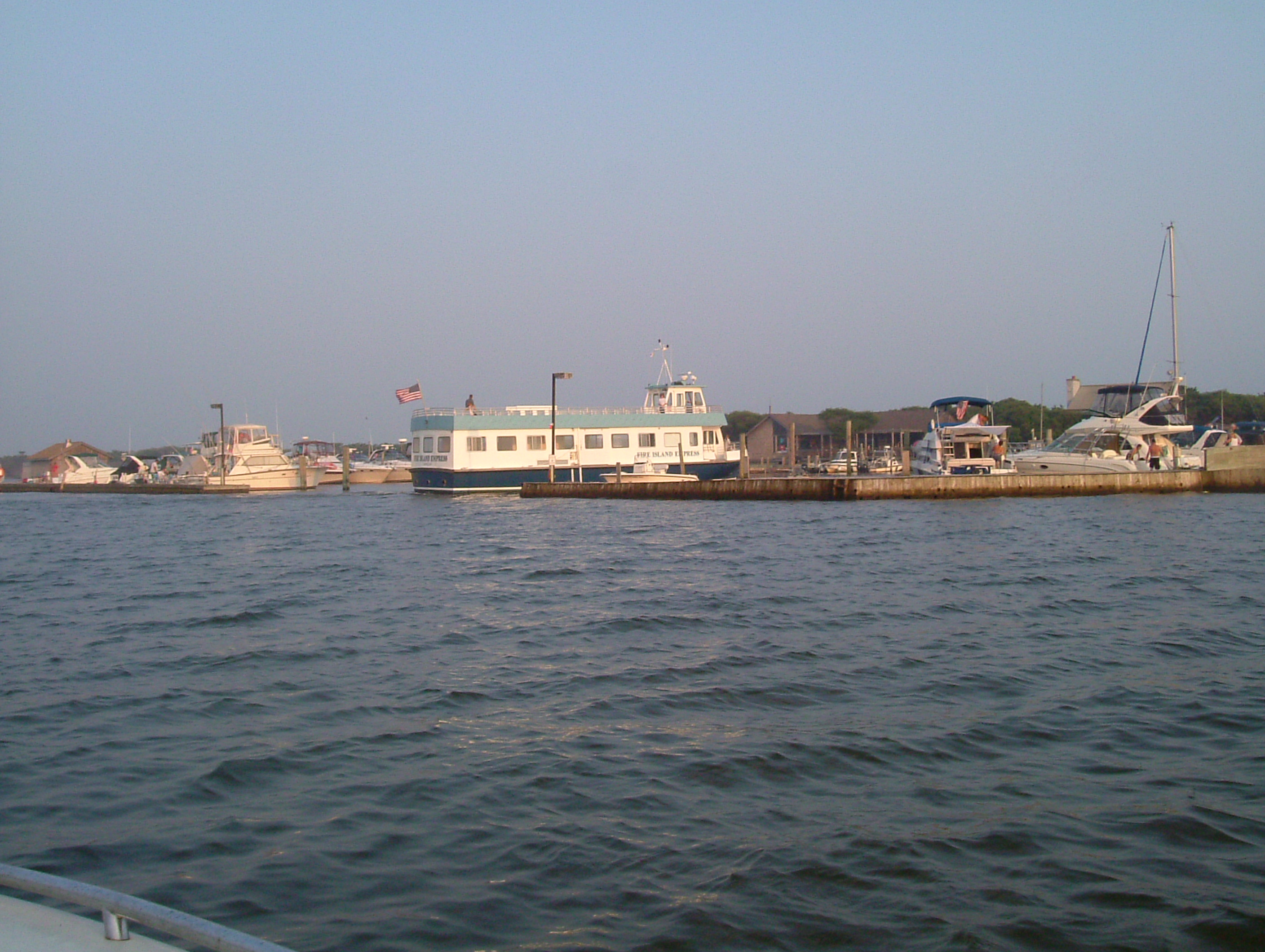 On The Patchogue River - the Watch hill Ferry,8/21/05 by Stevan